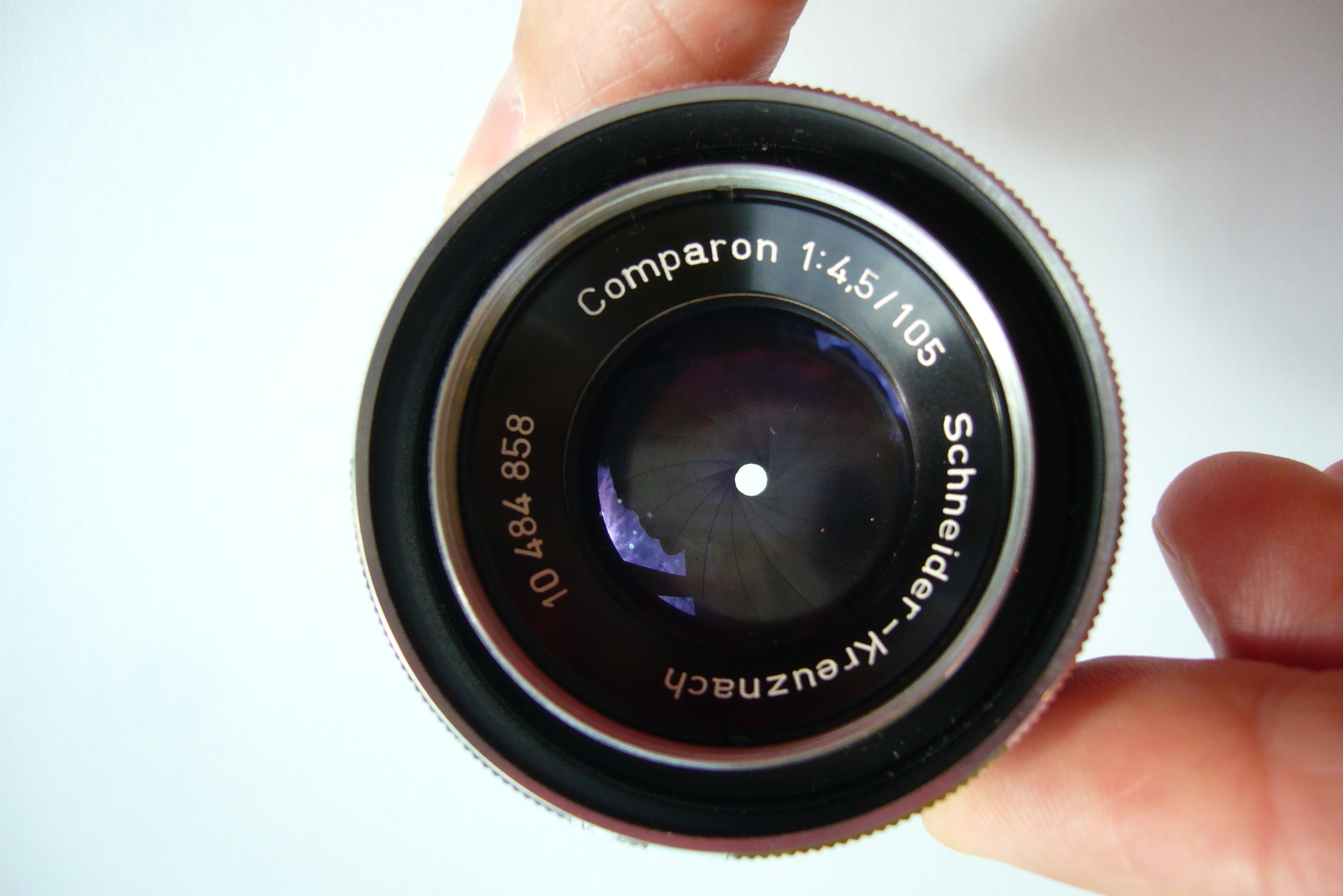 A Schneider Kreuznach "Comparon" F4.5/105mm Enlarger lens.